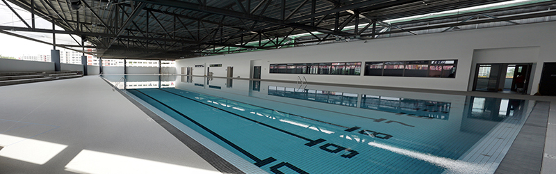 Overseas Family School Swimming Pool